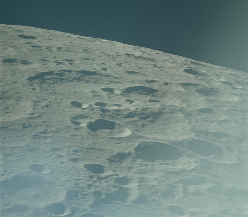 Seyfert lunar crater Apollo-16 image AS16-122-19562